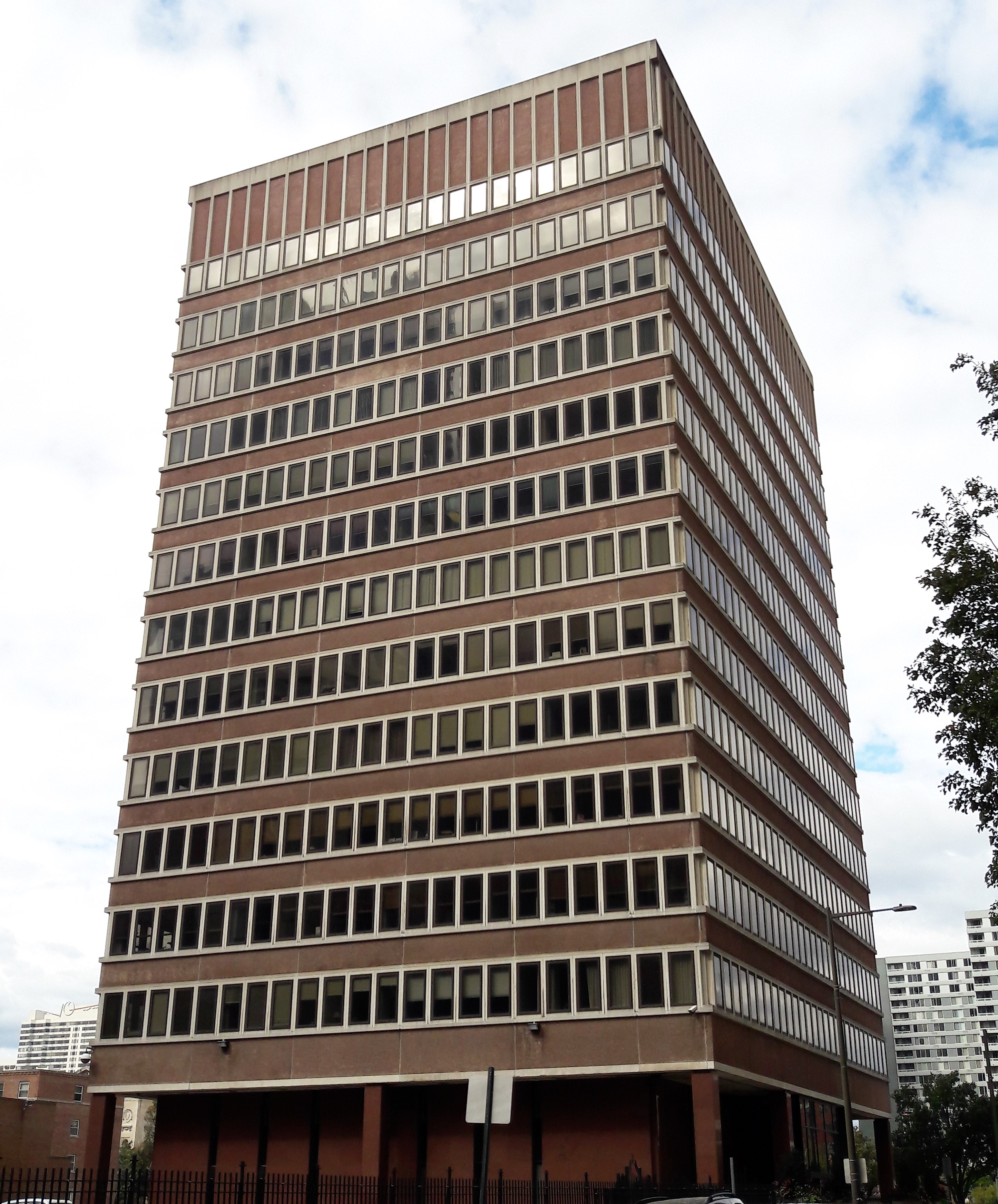 The pastoral center of the Archdiocese of Philadelphia on the grounds of the Cathedral Basilica of Saints Peter and Paul.